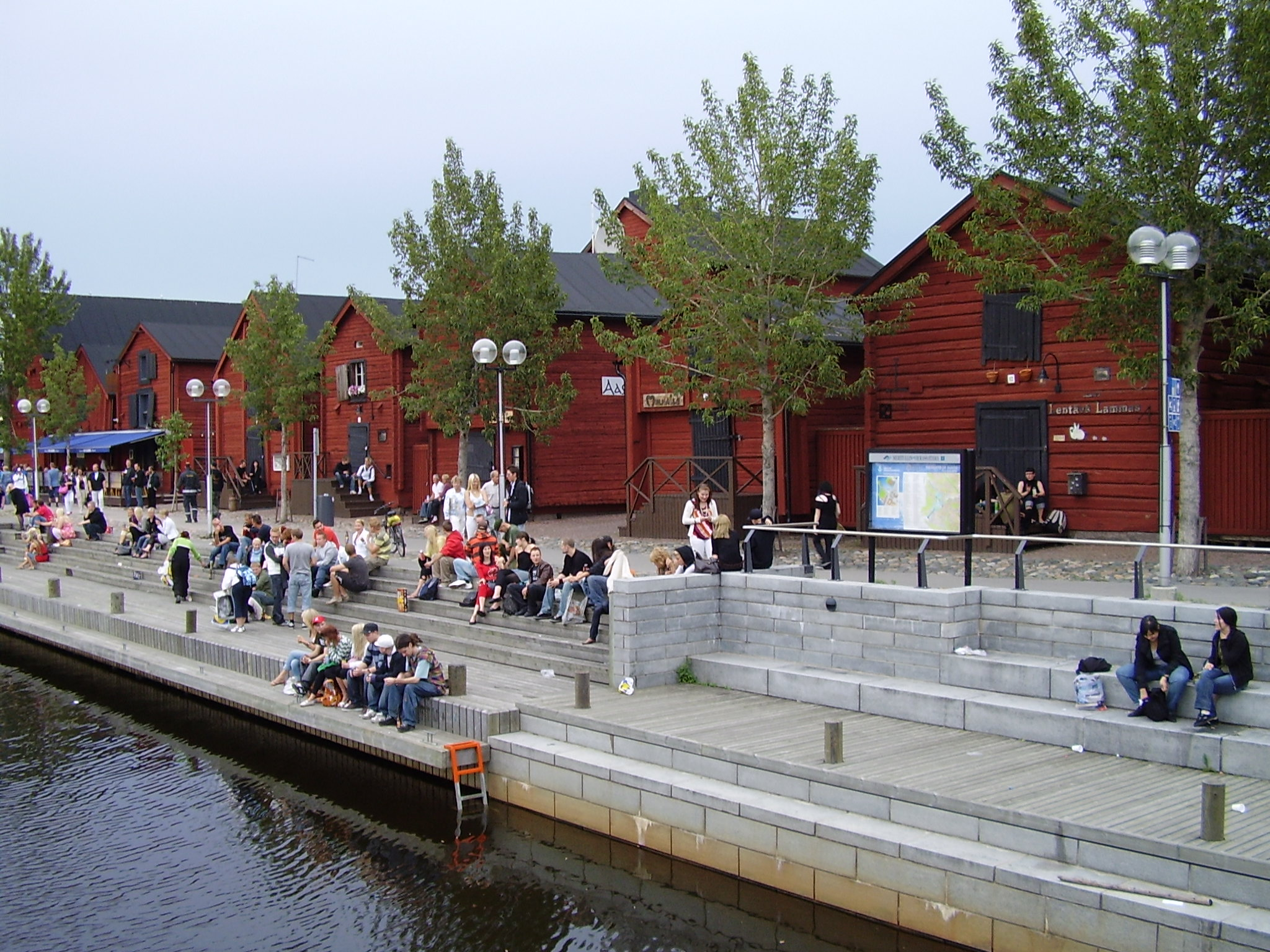 Picture shows old port of Oulu, Finland in the summer atmosphere.